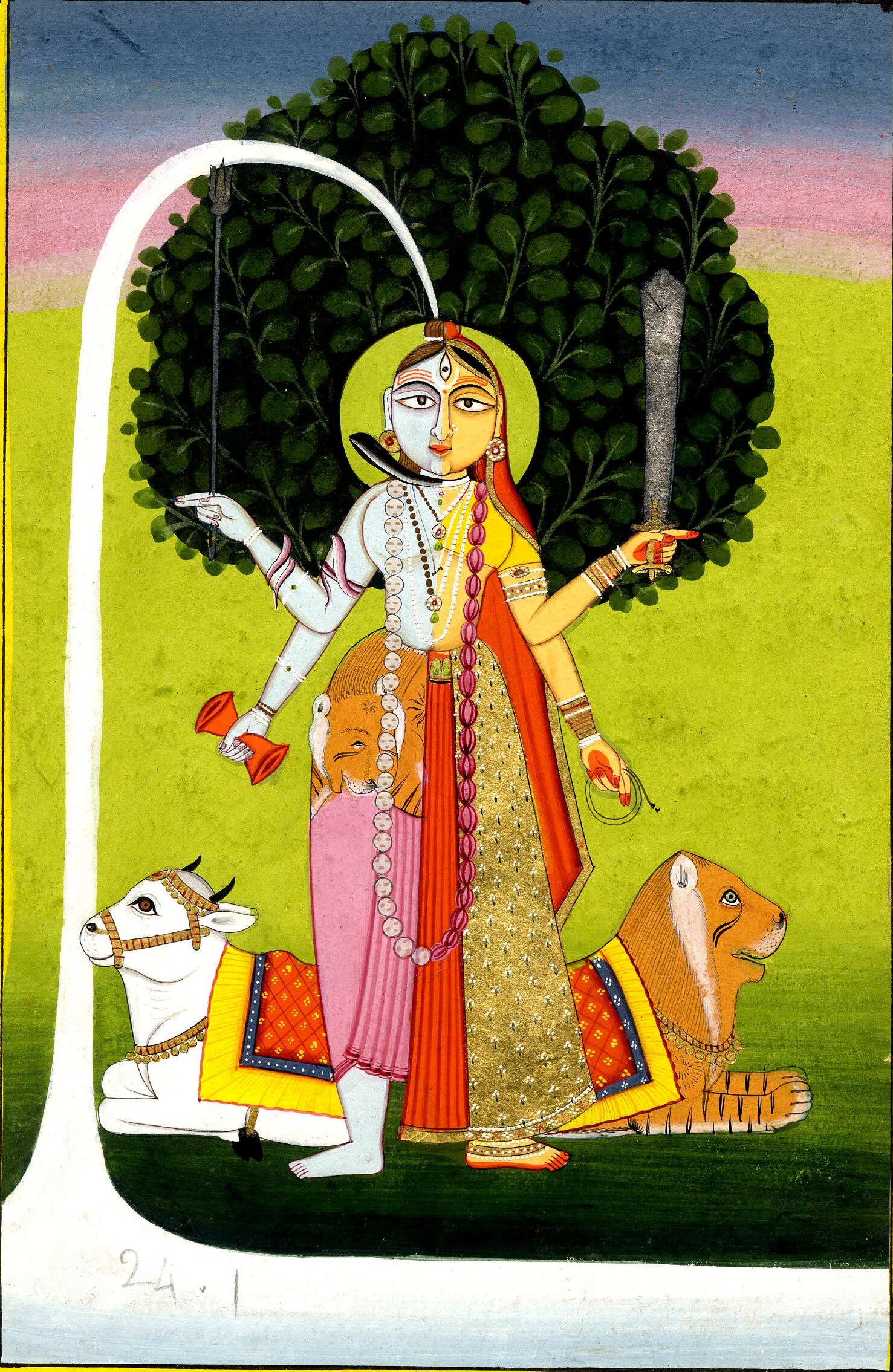 Ardhanarisvara